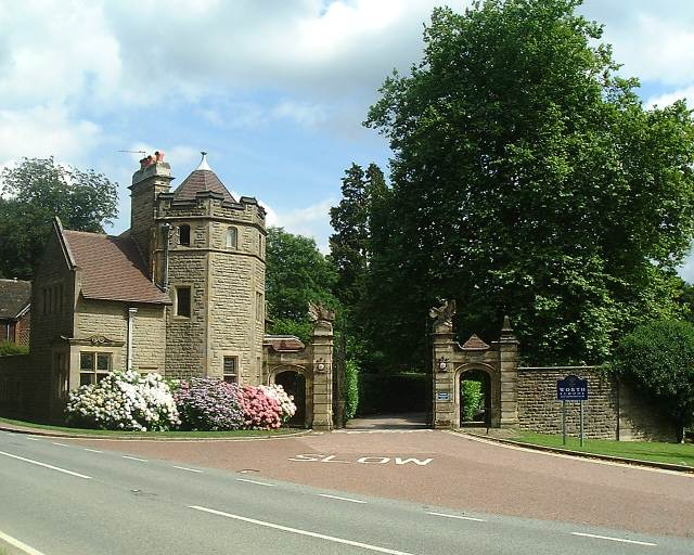 Worth School entrance. On the stone is carved the date 1933. The year of the founding of Worth Priory and preparatory school. The senior school started in 1959.